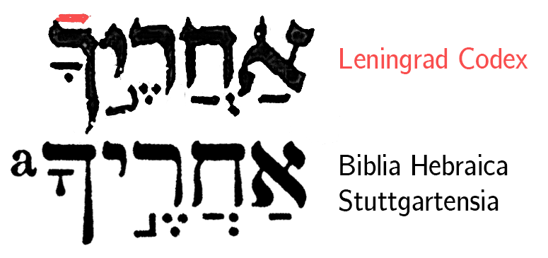 Comparison the typefaces of the word אחריך (Cant 1:4a) in the Leningrad Codex and the Biblia Hebraica Stuttgartensia to illustrate the omission of the 'Rafe' diacritic in most print editions of the Hebrew Bible.